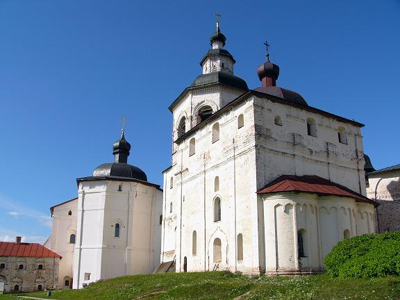 Kirillo-Belozersky Monastery. Archangel Gavriil Church (1531-34)